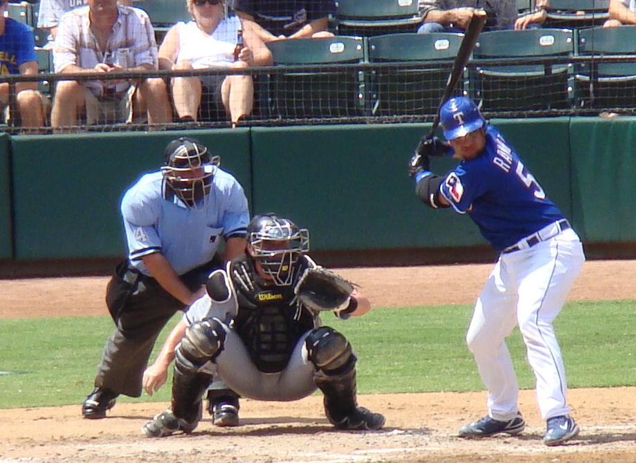 Max Ramírez batting at a July 13th, 2008 game